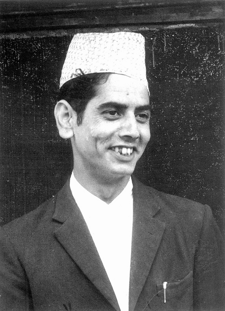 Bhairav Aryal (1936-1976), great satirical writer and comical essayists of Nepali language